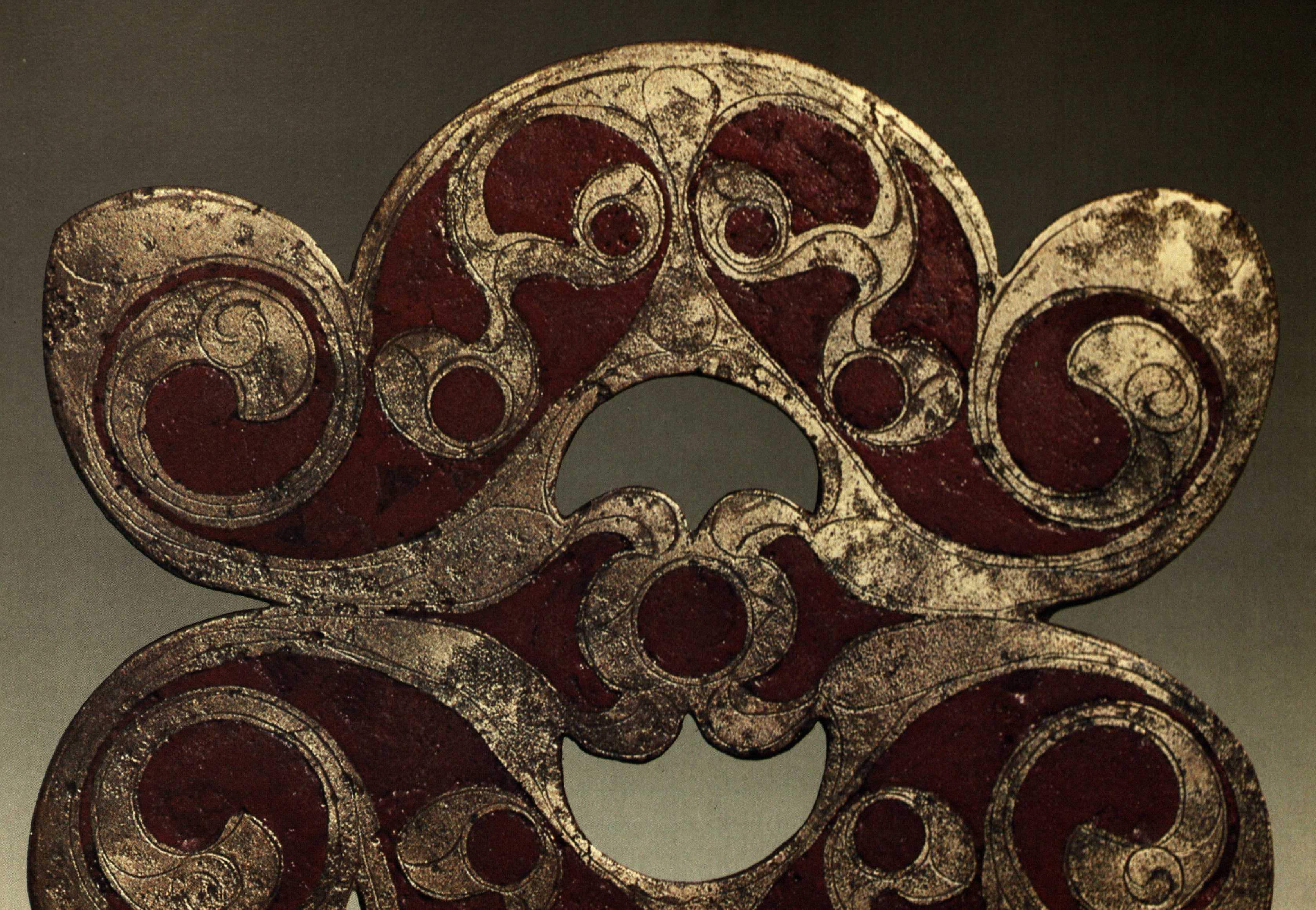 Enamelled bronze plaque from Celtic horse-gear, dated to mid-1st century AD; find spot: Santon, Norfolk; on display at University Museum of Archaeology and Ethnology in Cambridge